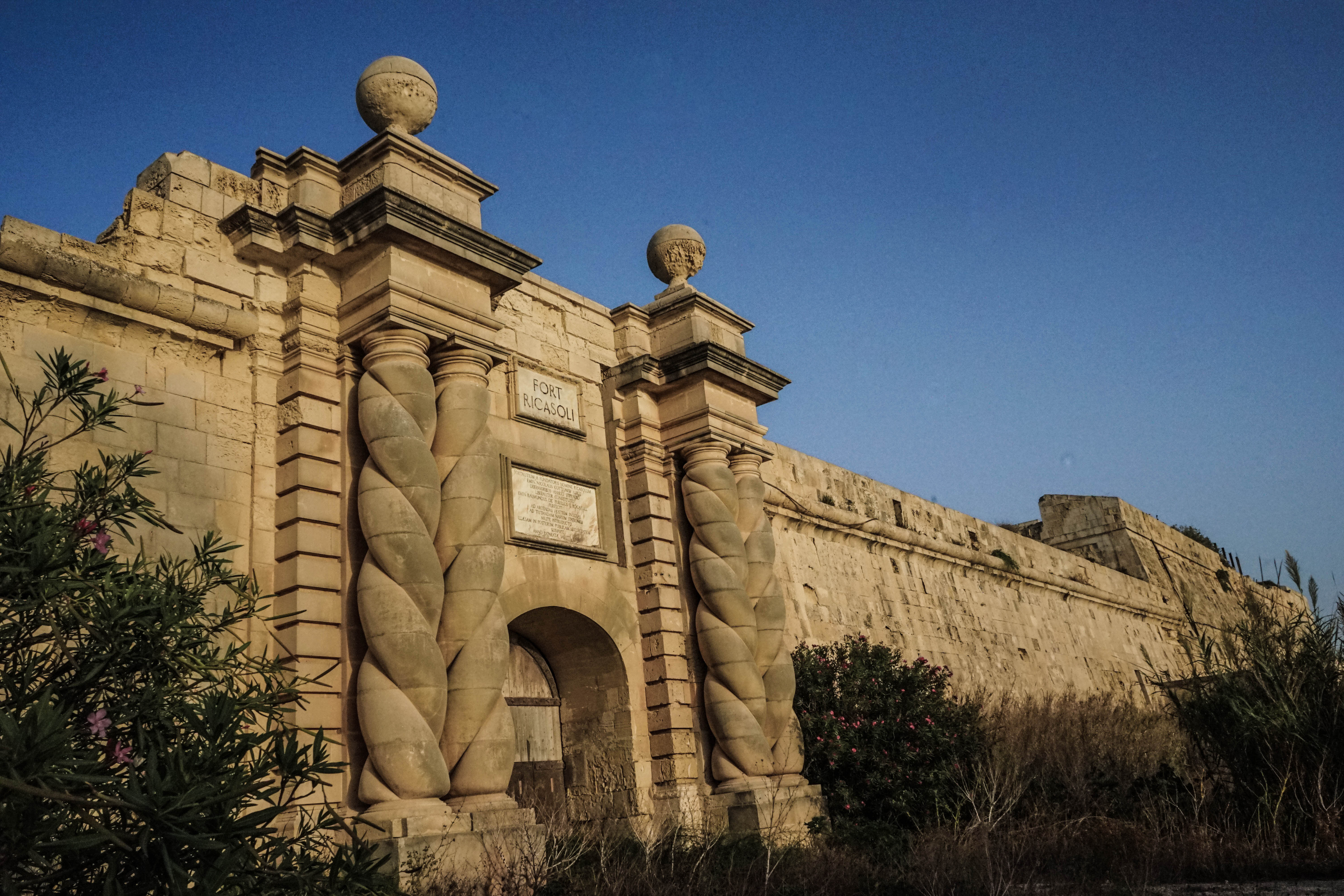 Fort Ricasoli This media is about Maltese cultural property with inventory number 01655.